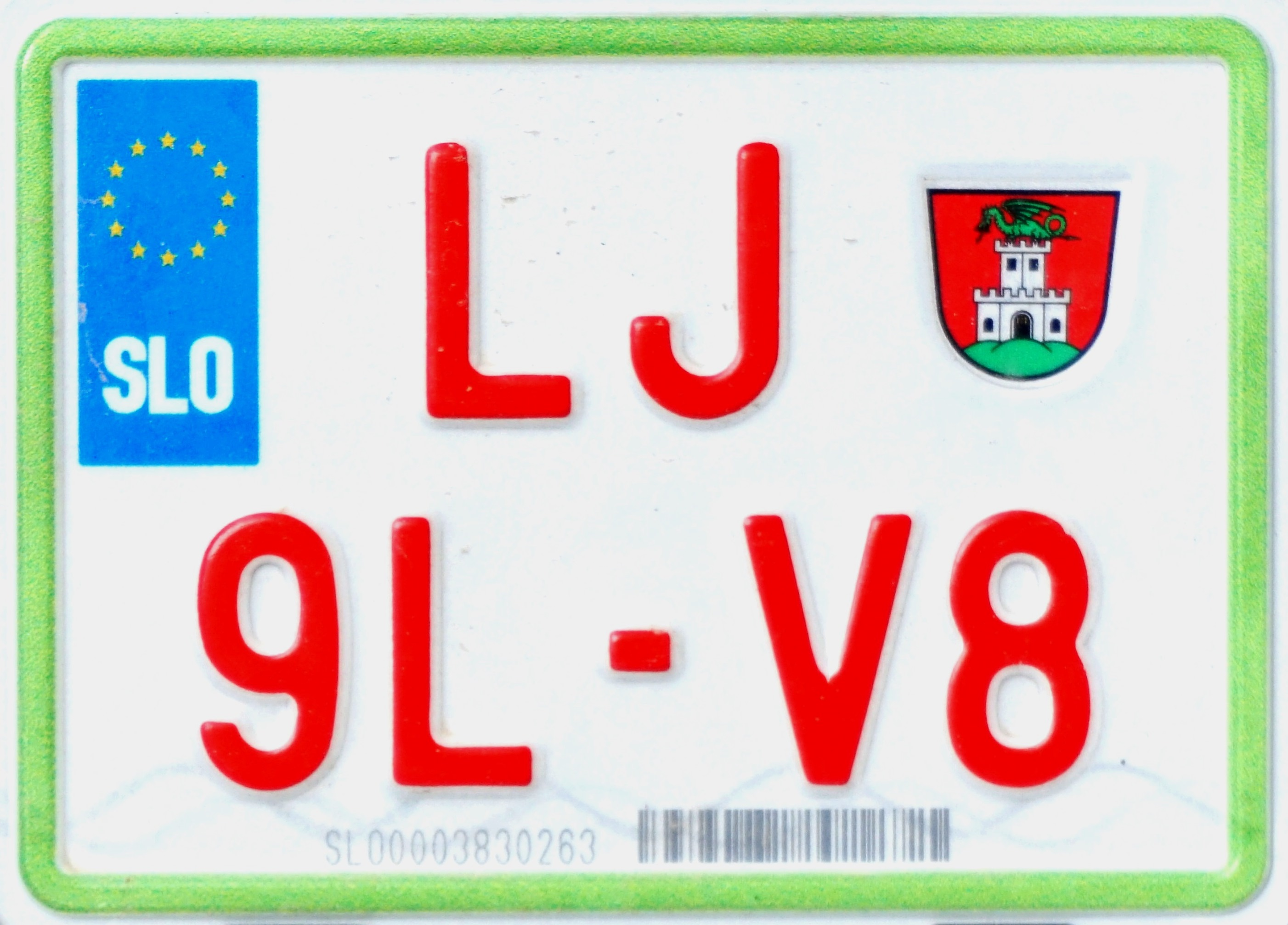 On registration plates for mopeds, where power of engine does not exceed 4 kW and speed does not exceed 25 km/h, the district code and registration characters are red. Dimensionsː 150 × 110 mm.[2]